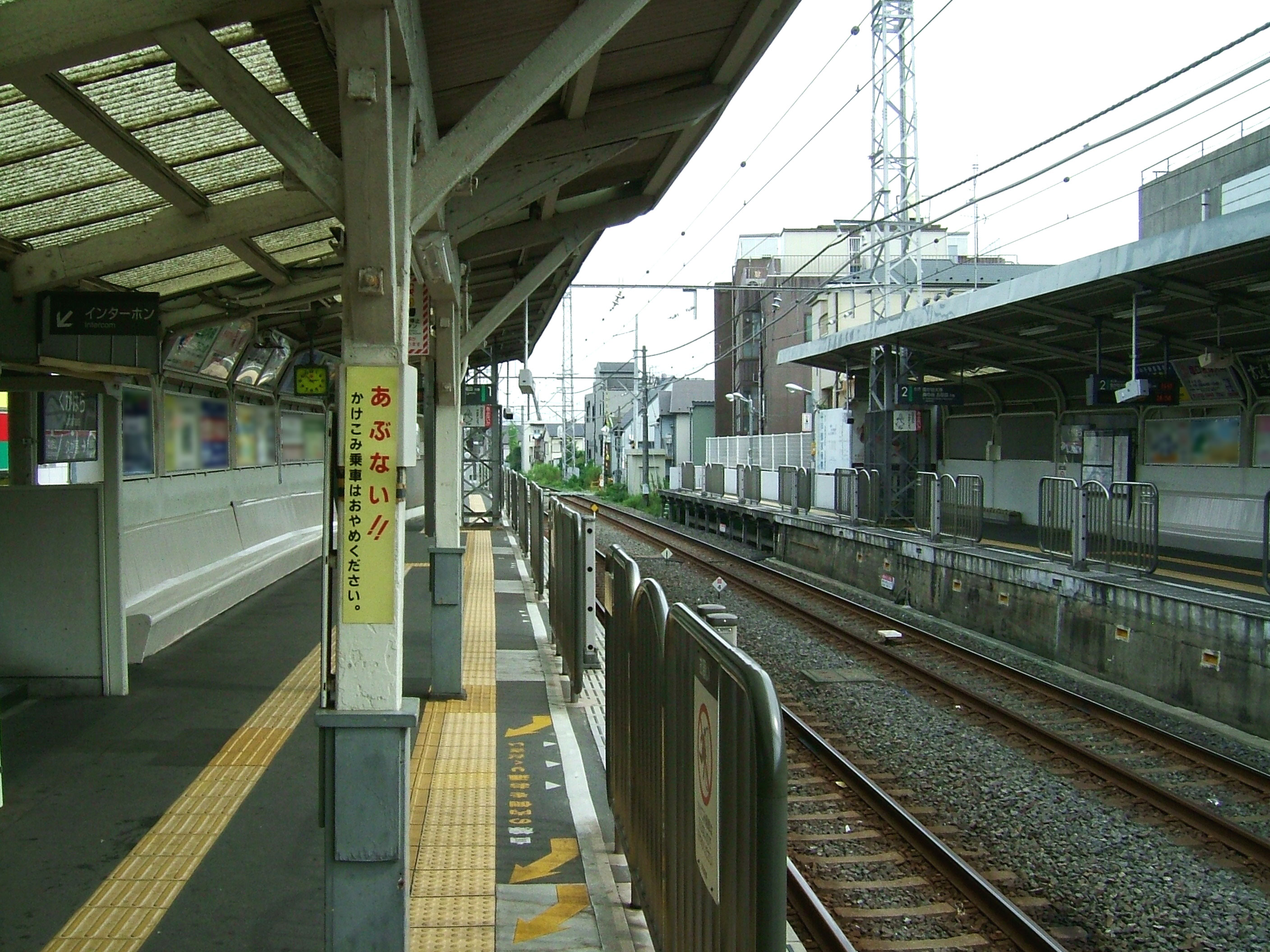 Kugahara Station platform (Tōkyū Ikegami Line)